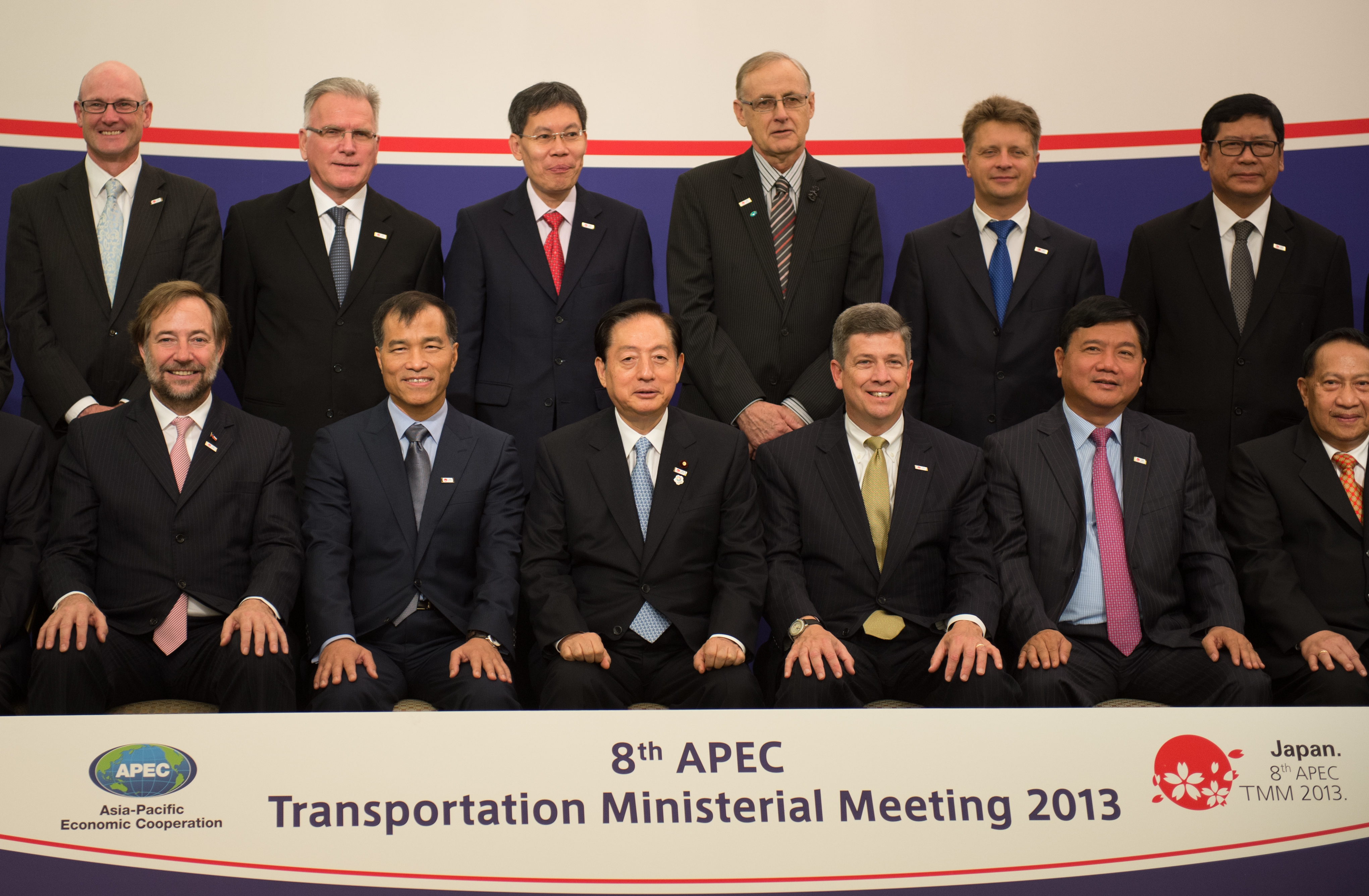 TOKYO, Japan (September 5, 2013) U.S. Deputy Secretary of Transportation John Porcari at APEC Ministerial Photo Session [State Department photo by William Ng/Public Domain] Standing, from left to right: Andrew Wilson, Deputy Secretary of Infrastructure and Transport (Australia) Mackenzie Clugston, Canada's Ambassador to Japan Lui Tuck Yew, Minister of Transport (Singapore) Alan Bollard, Executive Director (APEC Secretariat) Maxim Sokolov, Minister of Transport (Russia) Somchai Chanrod, Chief Inspector-General of Transport (Thailand) Seated, from left to right: Pedro Pablo Errázuriz Domínguez, Minister of Transport and Telecommunications (Chile) Yeh Kuang-Shih, Minister of Transportation and Communications (Taiwan) Akihiro Ohta, Minister of Land, Infrastructure, Transport and Tourism (Japan) John D. Porcari, Deputy Secretary of Transportation (United States) Dinh La Thang, Minister of Transport (Vietnam) Evert Erenst Mangindaan, Minister of Transportation (Indonesia)